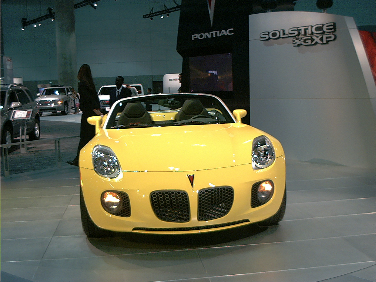 The Pontiac Solstice GXP that was introduced at the en:2006 Los Angeles Auto Show. (Photo taken by The_Helper_S)